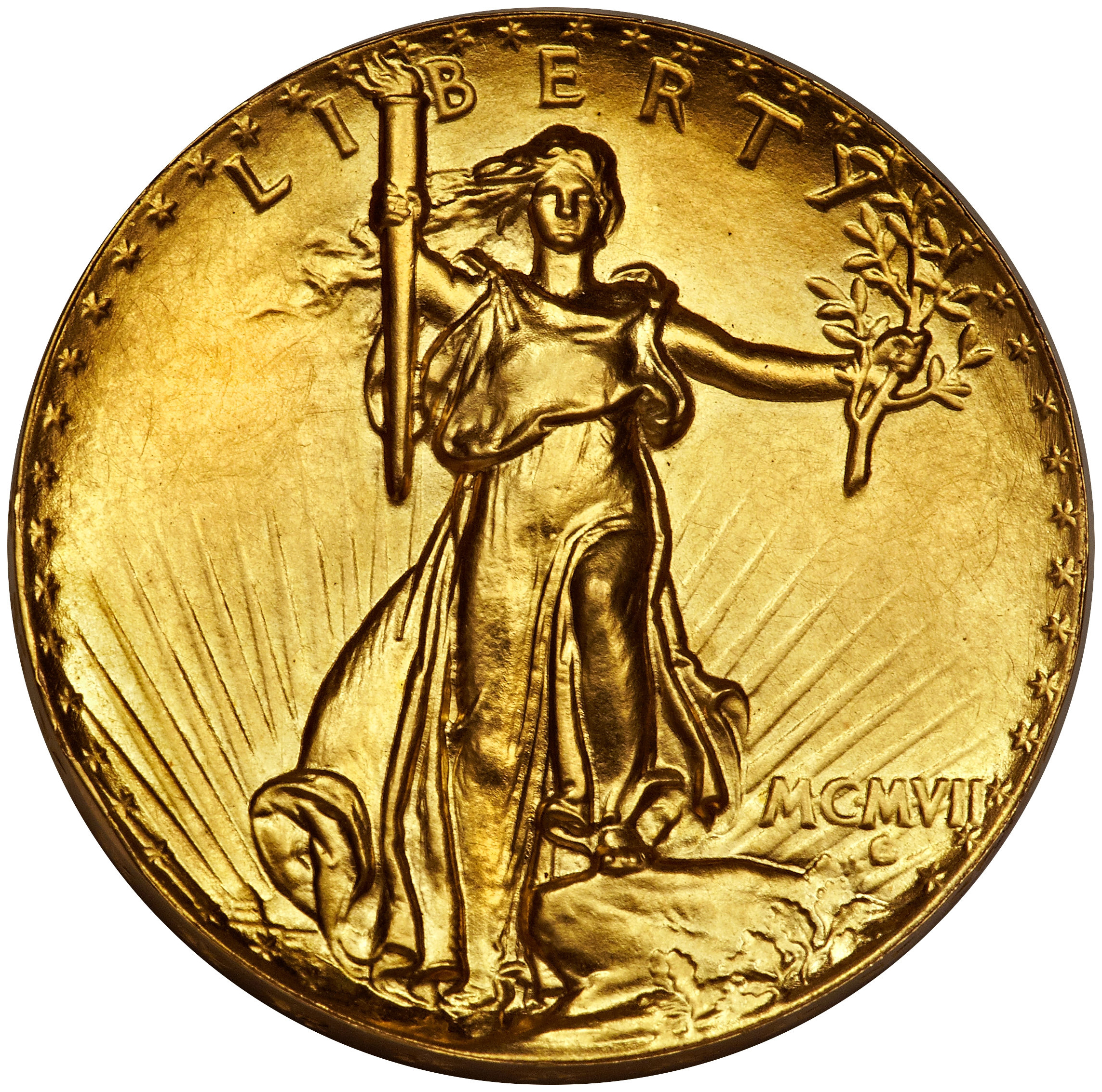 1907 Ultra High Relief $20 Double Eagle Inverted Edge Letters (obv)